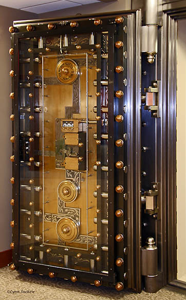 Baker Boyer Bank in Walla Walla, WA -- The exterior of the bank as built in 1911. The bank originally began in 1867 when Dr. Baker and John Boyer became partners in a successful mercantile business which supplied miners heading for the Idaho and Montana gold rushes. The miners trusted them so much, they'd bring their gold and ask for it to be stored in the store's large safe. No receipts were asked for and no losses were suffered. In 1869 the mercantile was sold and Baker Boyer National Bank was founded. By 1889 Walla Walla had grown, Washington became the 42nd state in the union, and Baker Boyer received its national charter. In 1890 a new bank building was erected on the same site as the original. In 1911 the bank needed more space so the present seven-story buildings was created in 1911. For a short time it was the tallest building west of the Missippi. During the Great Depression, Baker Boyer was determined to remain open and allowed customers to use the back door of the bank, until the license for reopening arrived.